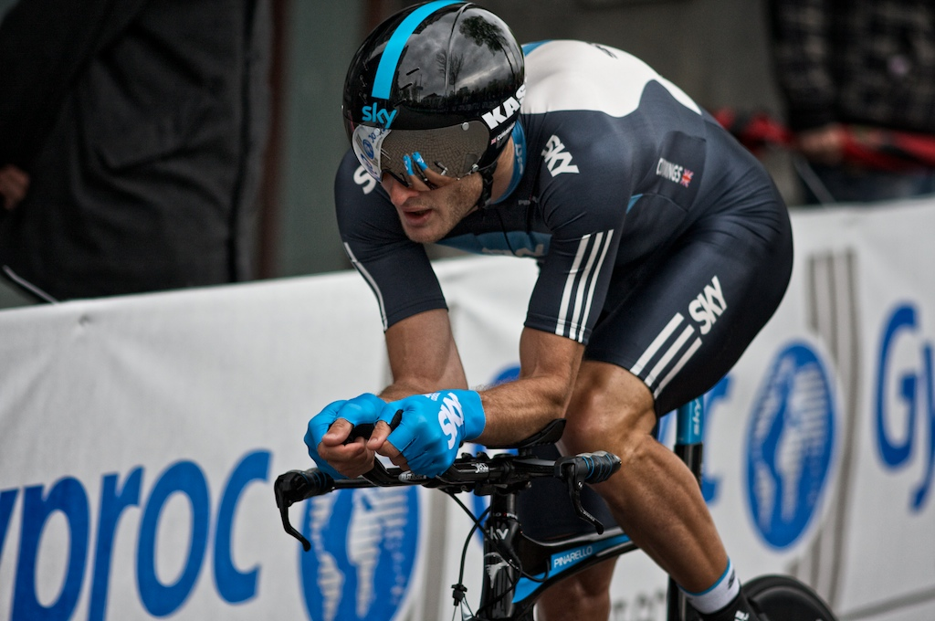 Steve Cummings, Team Sky